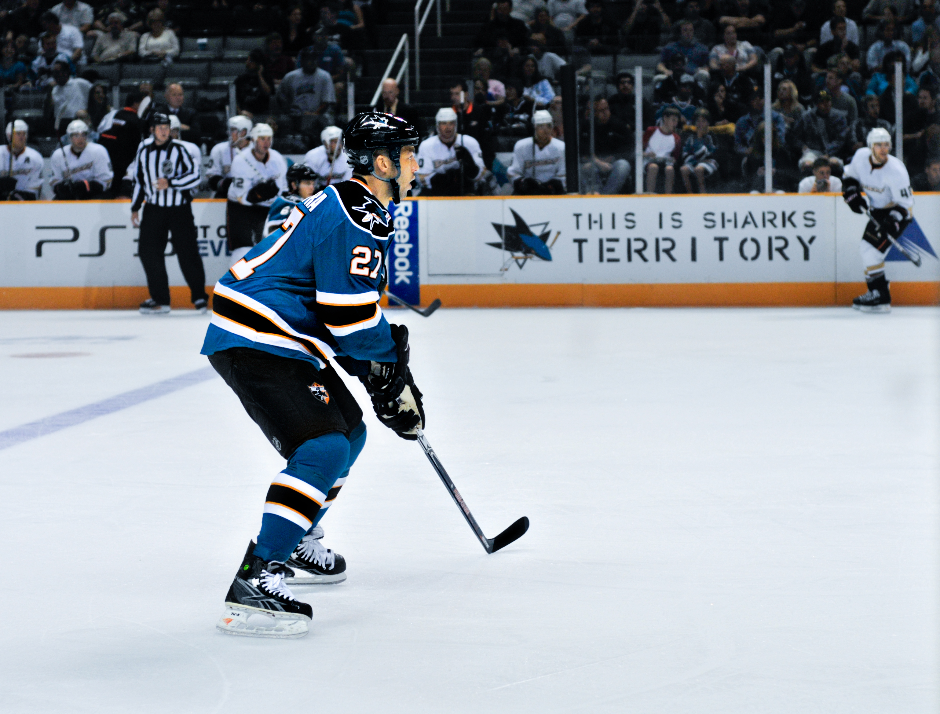 Manny Malhotra of San Jose Sharks